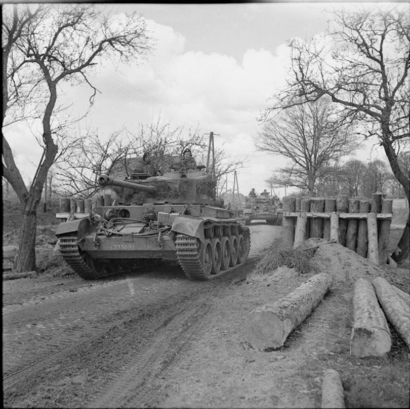 The British Army in North-west Europe 1944-45 Comet tanks of 23rd Hussars, 11th Armoured Division, advancing through the Weser bridgehead at Petershagen, 7 April 1945.